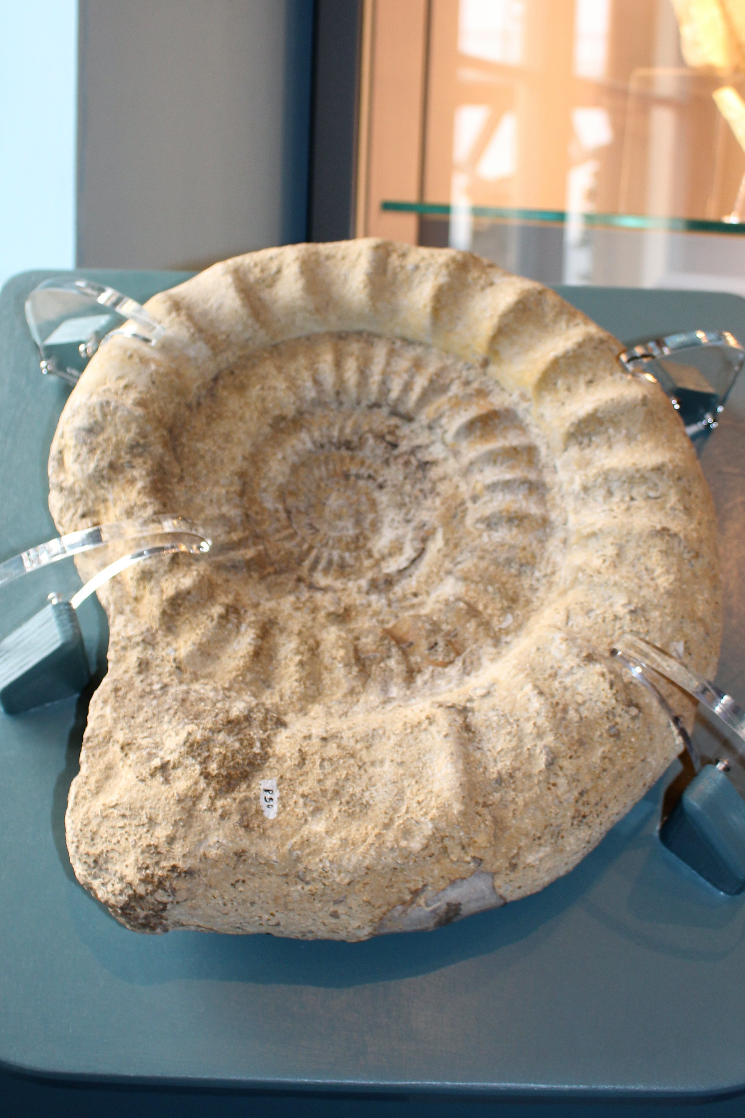 Perisphinctes tenuis - syn: Arisphinctes in the Rotunda Museum, Scarborough, England.